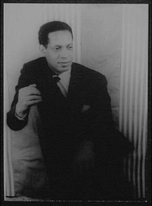 Title: Portrait of William Demby Abstract: 1 photographic print : gelatin silver.